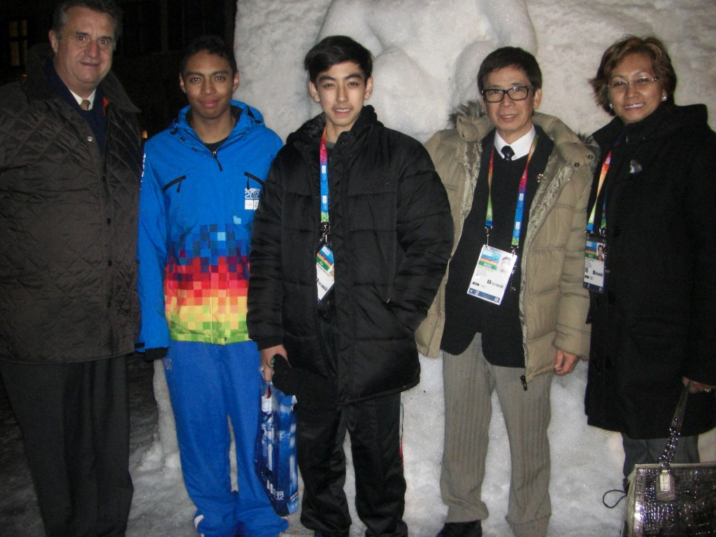 The Philippine delegation at the 2012 Youth Olympics with Consul Christian Traweger. From left to right: Consul Trawager, Alpine skier Abel Tesfamariam, Figure skater Michael Christian Martinez, Philippine Skating Union President Manuel Veguillas, and Martinez' coach and mother Teresa Martinez.